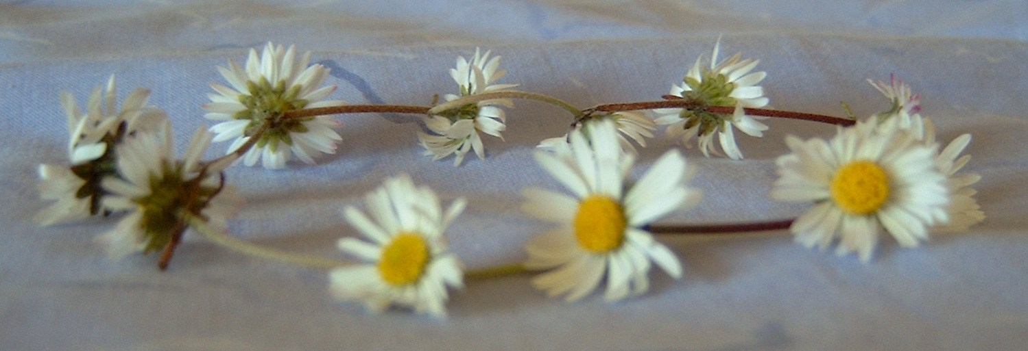 Summary A daisy chain made out of daisies (Bellis perennis)